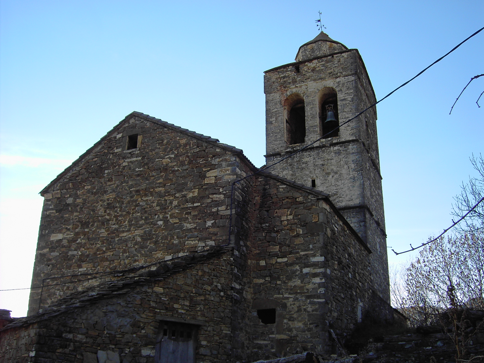 Church in Bestué, Huesca, Spain.